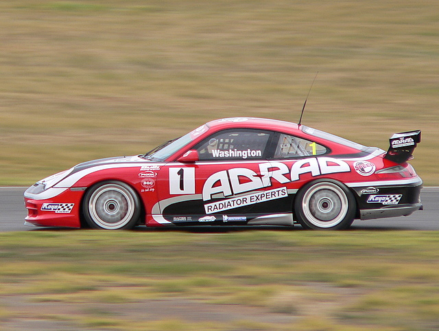 2006 Australian GT Championship season Porsche GT3 Cup race car number 1 driven by Bryce Washington during Round 5 at Mallala Motor Sport Park